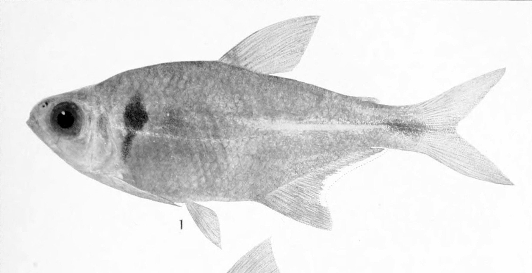 Probolodus heterostomus Title: Annals of the Carnegie Museum Year: 1911-1913 (1910s) Authors: Carnegie Museum; Carnegie Museum of Natural History Subjects: Carnegie Museum; Carnegie Museum of Natural History; Natural history Publisher: [Pittsburgh : Published by authority of the Board of Trustees of the Carnegie Institute] Text Appearing Before Image: ANNALS CARNEGIE MUSEUM, Vol, VIM Plate IV. Text Appearing After Image: PrOBOLODI - AND PSAl [DO